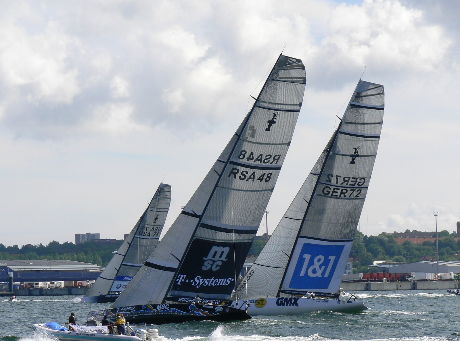 German Sailing Grand Prix Kiel 2006. Team Shosholoza + United Internet Team Germany + BMW Oracle Racing.